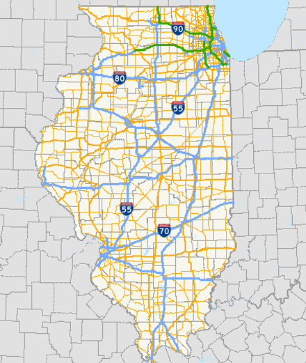 Routes in Illinois. Limited access highways, including all Interstates, are marked in light blue. U.S. Routes and State Routes are marked in orange, with US Routes having a thicker line. The roads marked in green are toll roads maintained by the Illinois State Toll Highway Authority or the (Chicago) Skyway Concessions Company